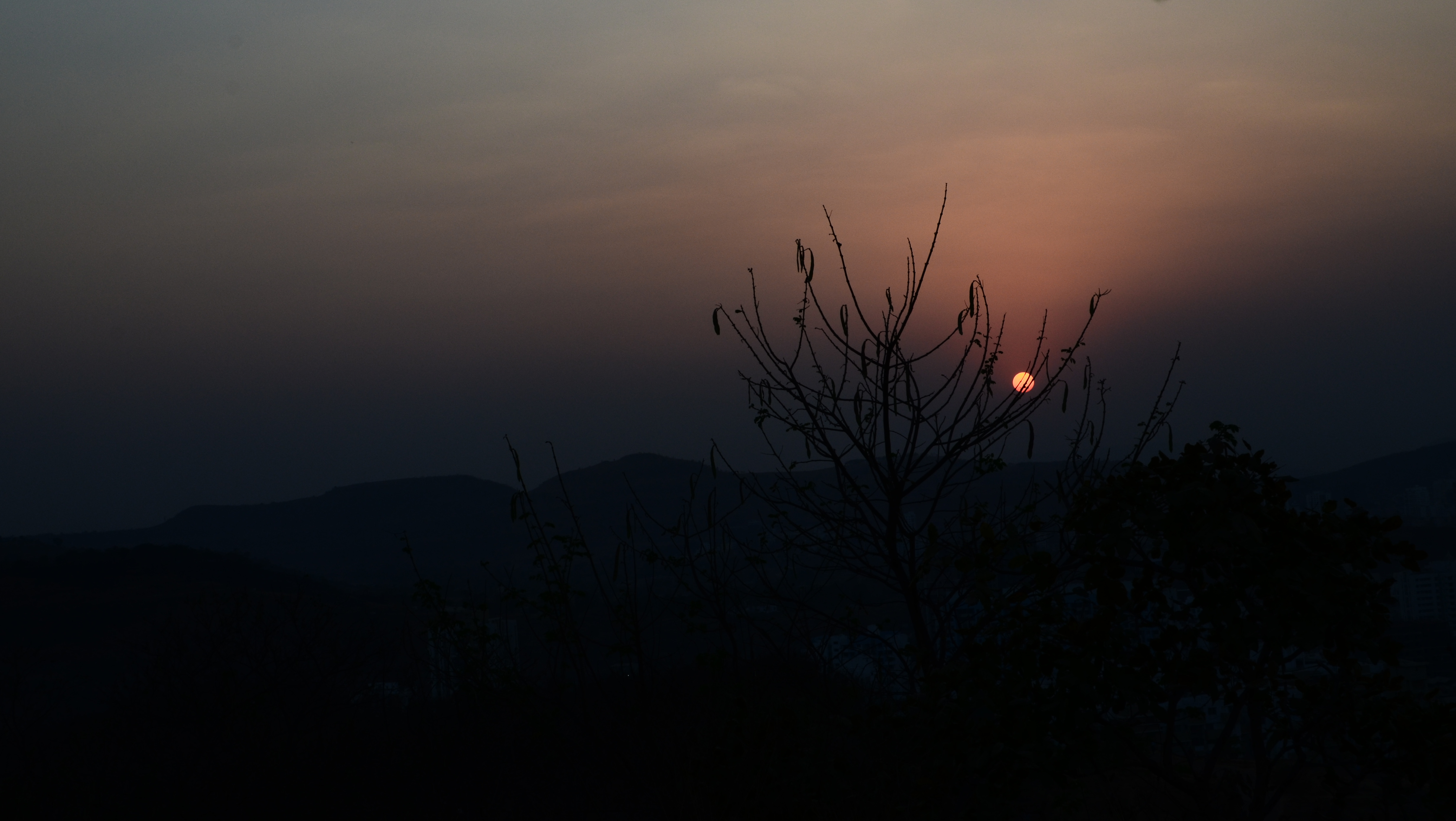 The image represents the scenic beauty of sunset that can be seen from Baner hill.